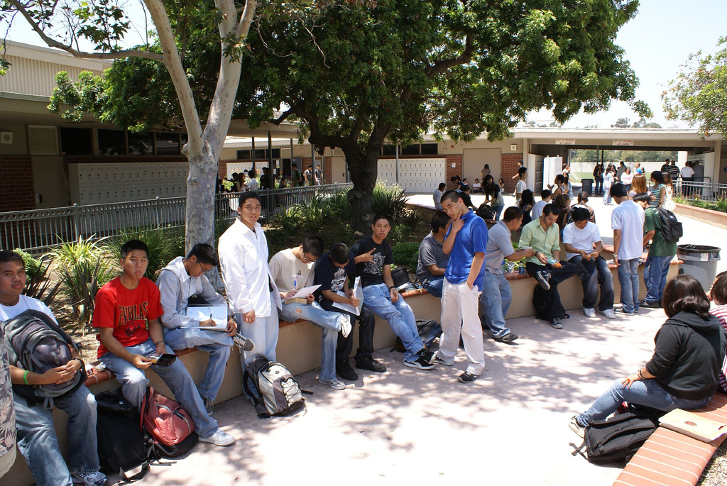 A photo taken on campus at Gahr High School.